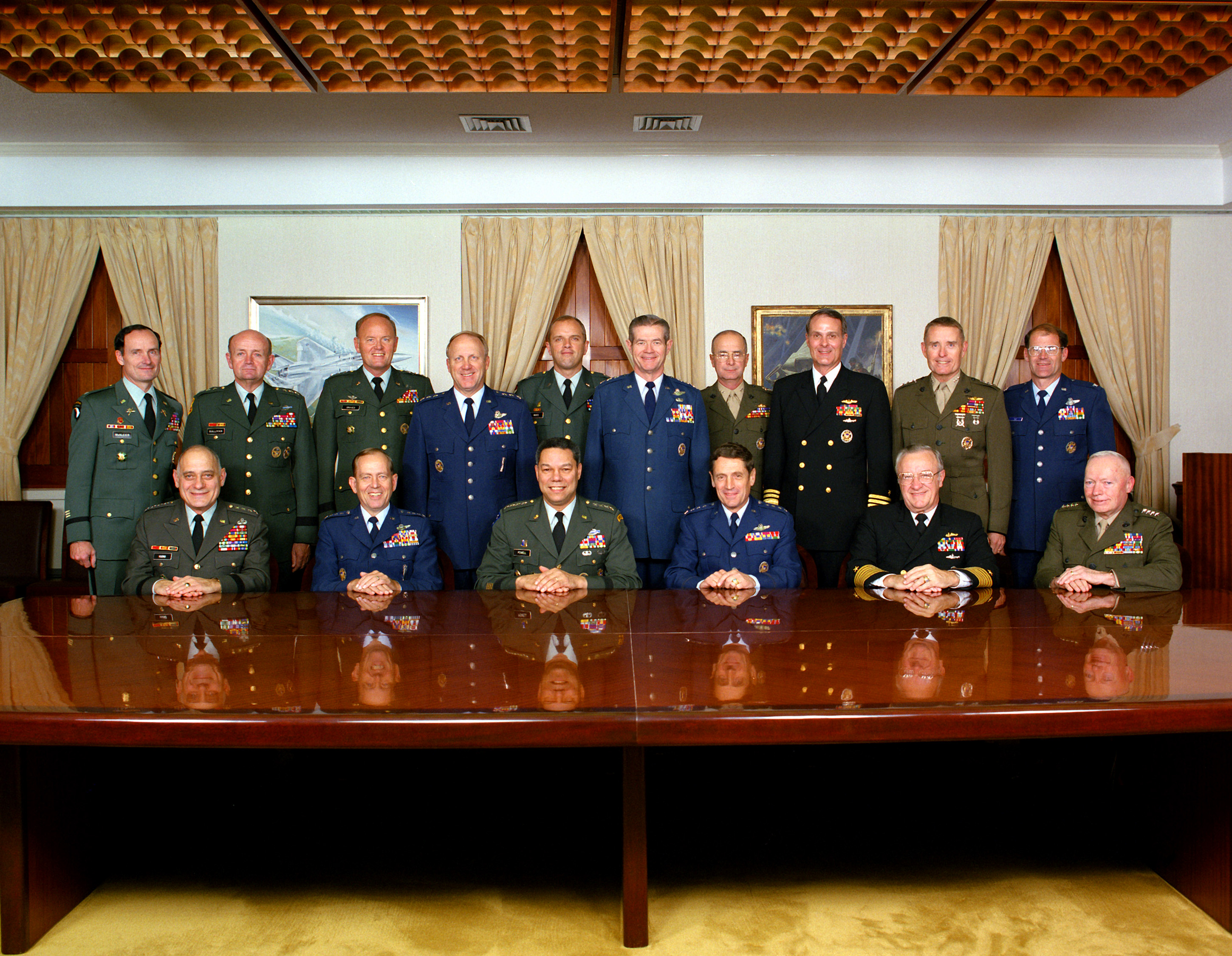 Formal and informal group photographs of the Joint Chiefs of Staff: GEN Colin Powell (USA), GEN Carl E. Vuono (USA), GEN Larry D. Welch (USAF), GEN Robert T. Herres (USAF), Admiral Carlisle A. H. Trost (USN), GEN Alfred M. Gray (USMC). Also other staff members.